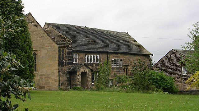 Calverley Hall, Woodhall Road, Pudsey, Leeds, West Yorkshire, England. Grade I listed building now owned by the Landmark Trust.